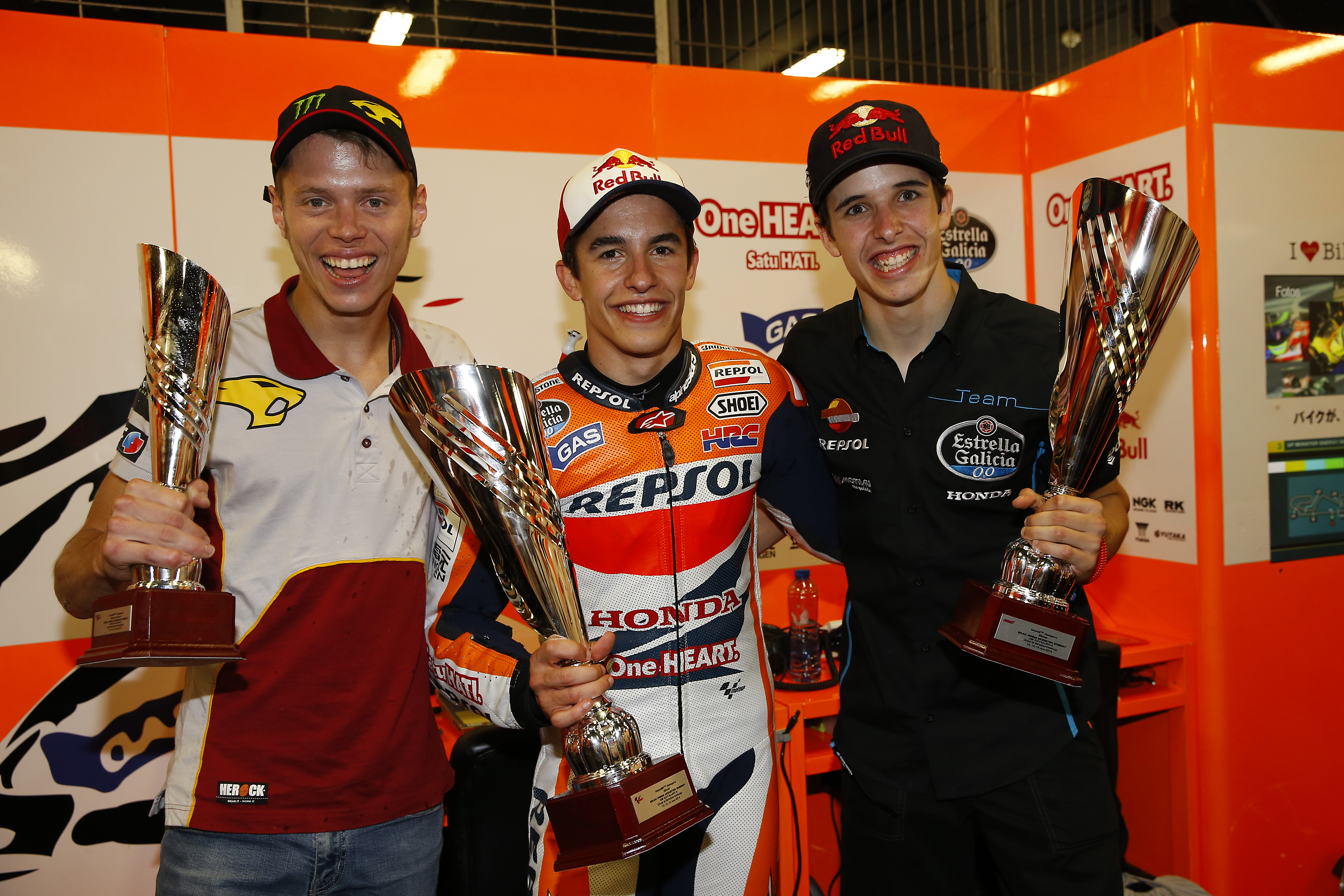 Tito Rabat, Marc Márquez and Álex Márquez, celebrating with their first place trophies after winning the 2014 Catalan Moto2, MotoGP and Moto3 races respectively.